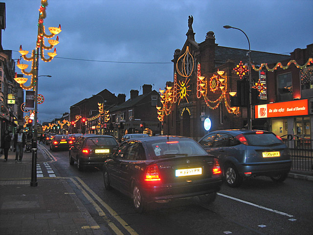 Diwali celebrations Leicester Diwali lights, Belgrave Road, Leicester The Diwali Festival of Light is the major event in the Hindu Calendar. The celebrations in Leicester are renowned not only in Britain but world wide. The lights go up in October with a Diwali theme and, during November, the Hindu lamps are replaced by seasonal symbols to celebrate Christmas in December. The decorated building is the Belgrave Neighbourhood Centre which is just in the featured square.